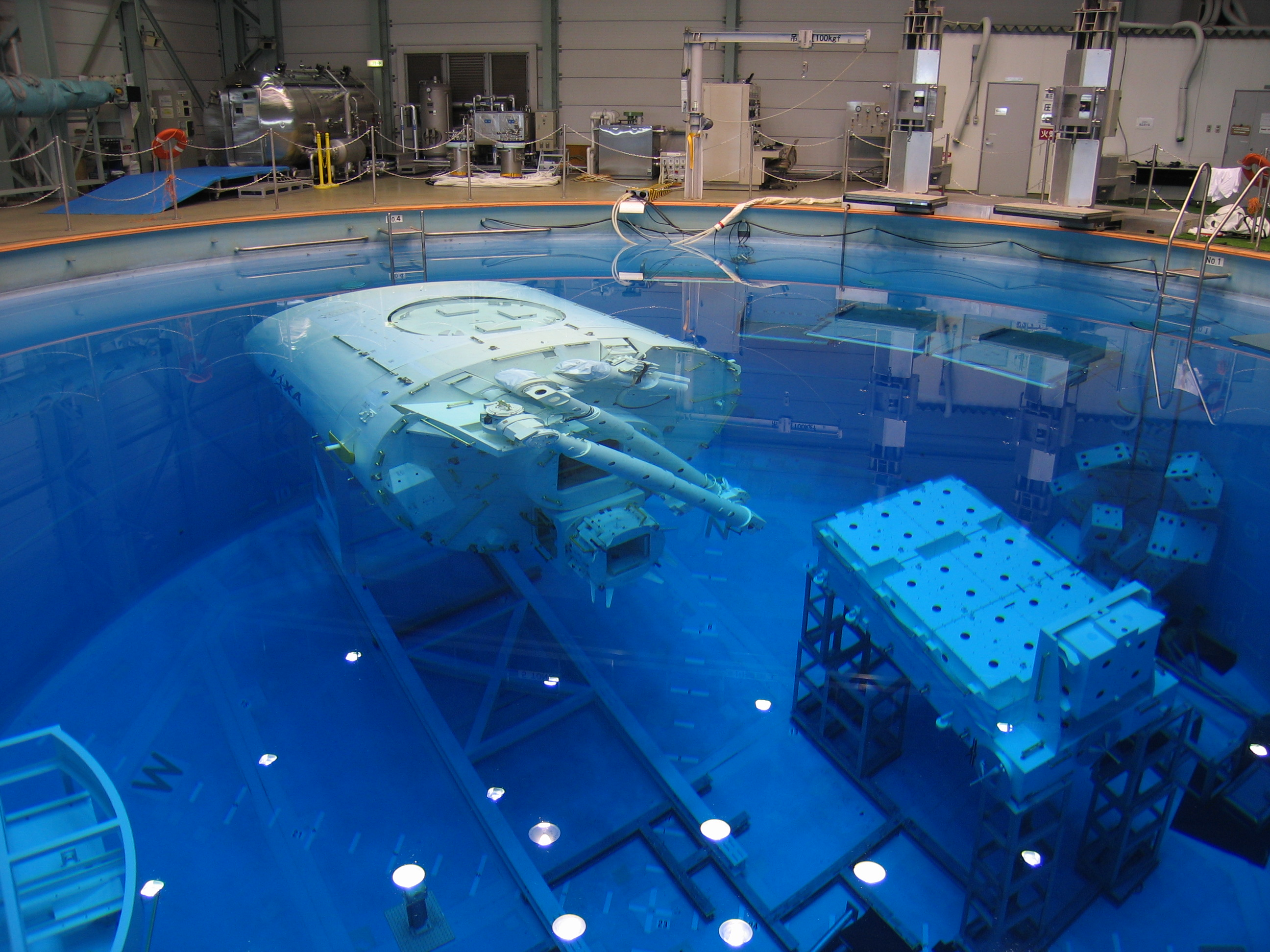 Photo by Yosemite. Japanese Experiment Module of International Space Station.